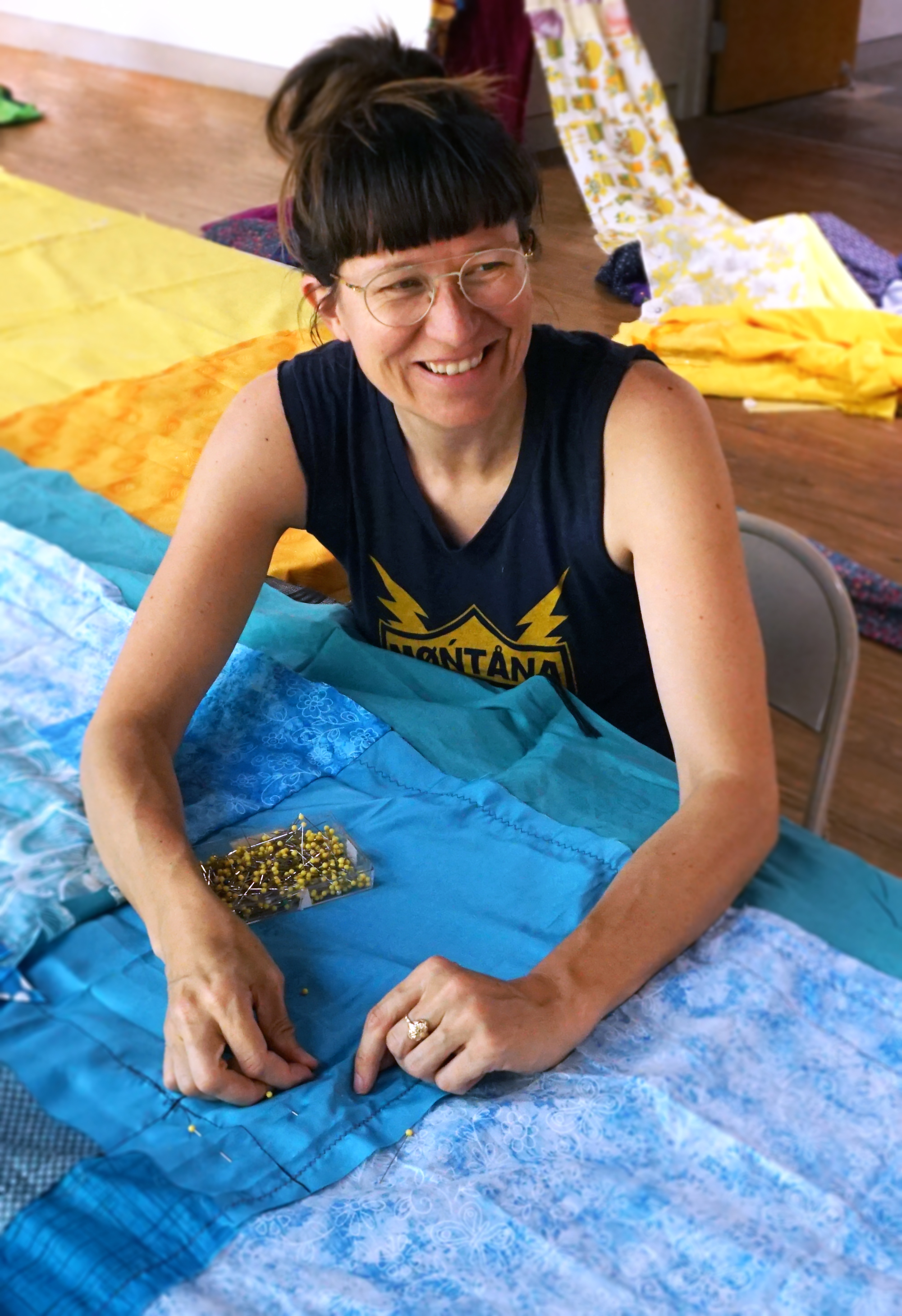 Portrait of Amanda Browder at the Arlington Arts Center 2019 working on the installation for "City of Threads"